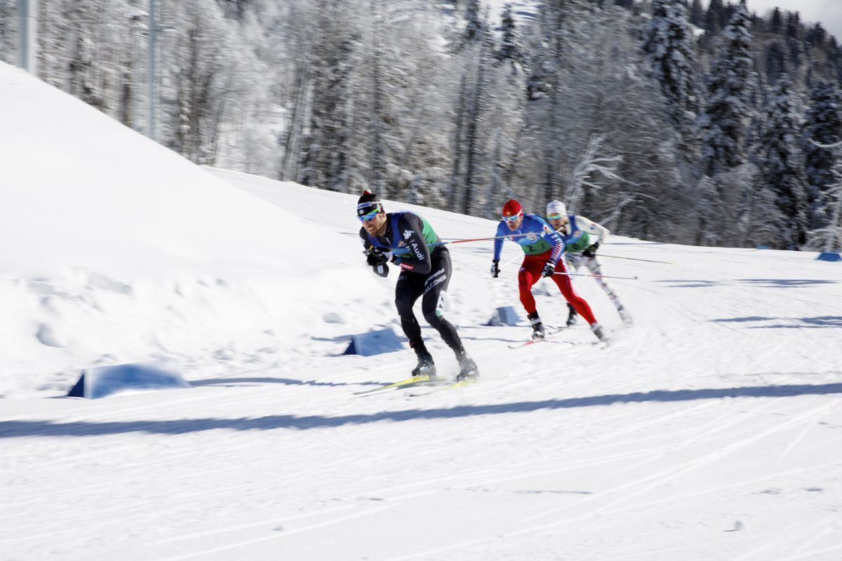 Cross-country skiing at the 2017 Winter Military World Games